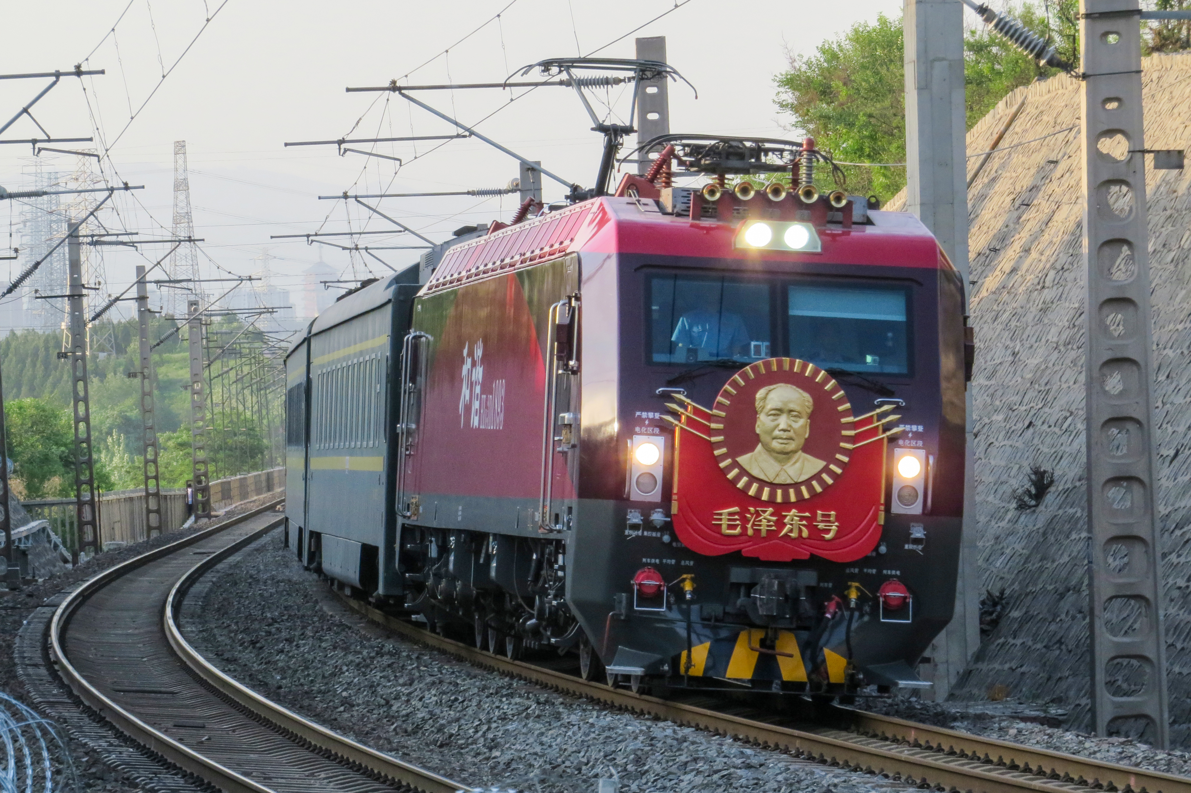 Z1 to Changsha. Another person is also spotting this legendary locomotive.